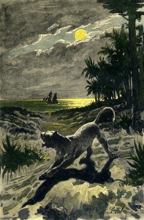 An illustration from Jules Verne's novel "Captain Antifer" (or "The Wonderful Adventures of Captain Antifer", 1894) drawn by George Roux.